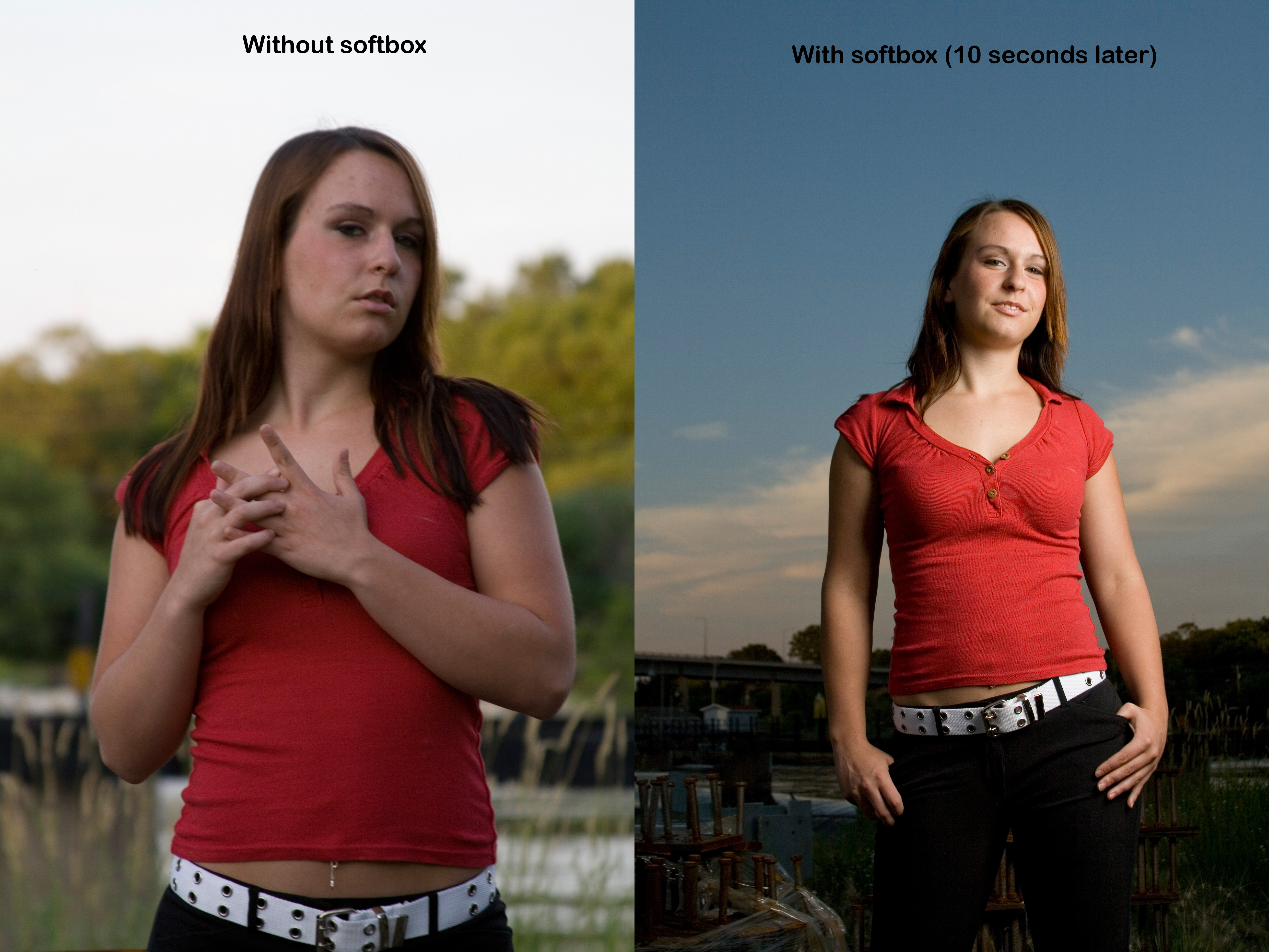 Two portraits of the same model: the one on the left with available light and the one on the right with softbox for lighting.